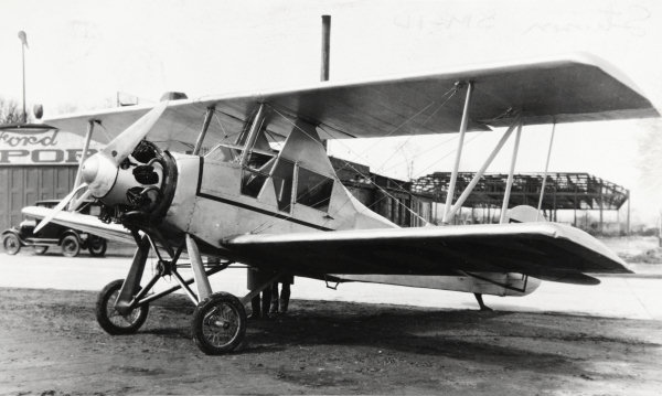 Stinson SB-1 Detroiter biplane (first version)